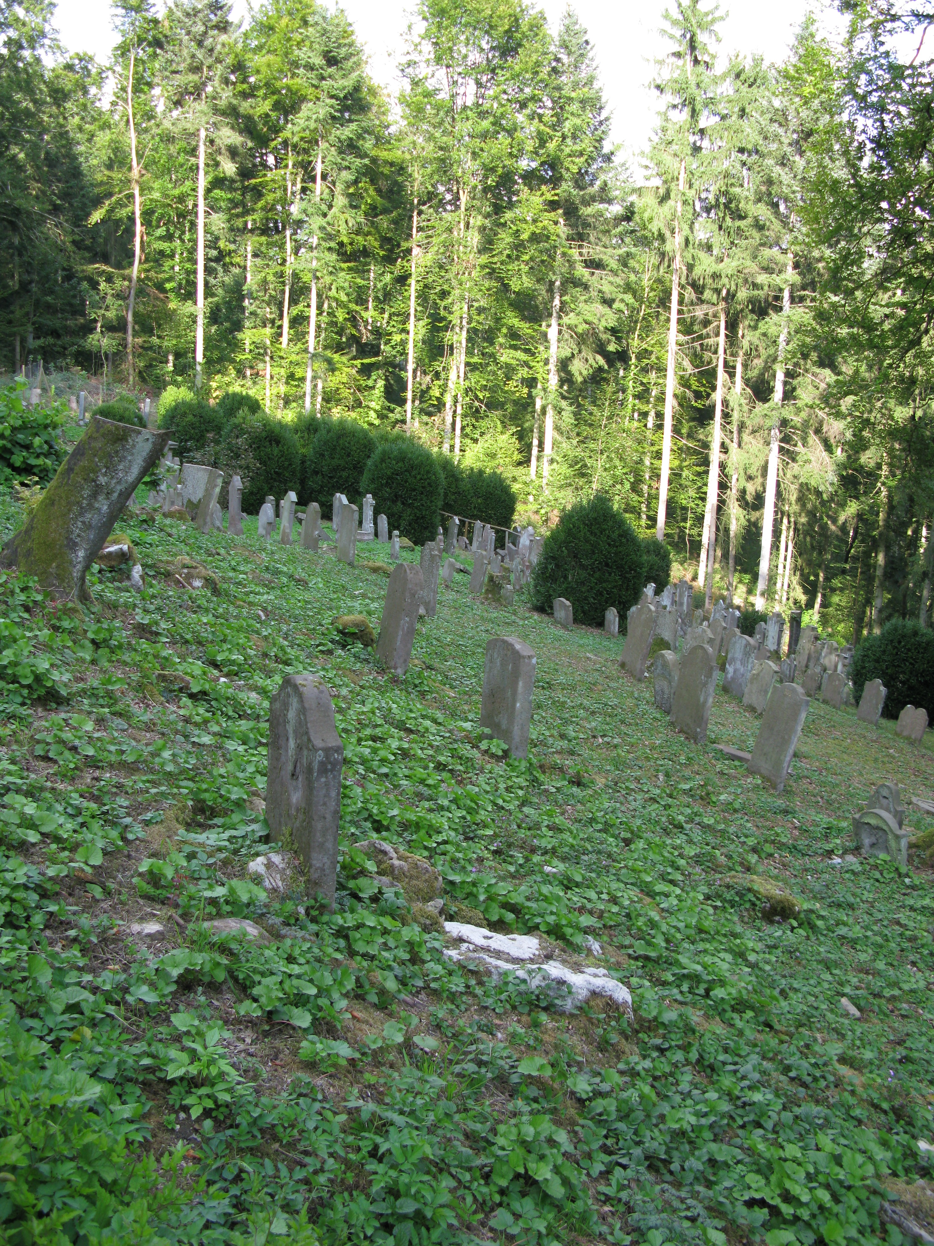 The Jüdischer Friedhof Mühringen is a Jewish cemetery and cultural monument close to Mühringen (district of Horb am Neckar).